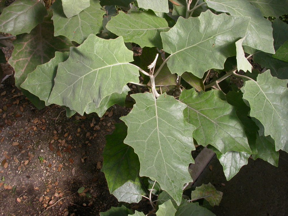 Brachyglottis repanda